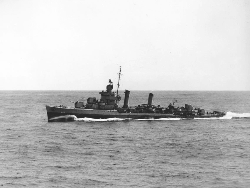 The U.S. Navy destroyer USS Swanson (DD-443) escorting the aircraft carrier USS Ranger (CV-4) during Operation Torch in November 1942.